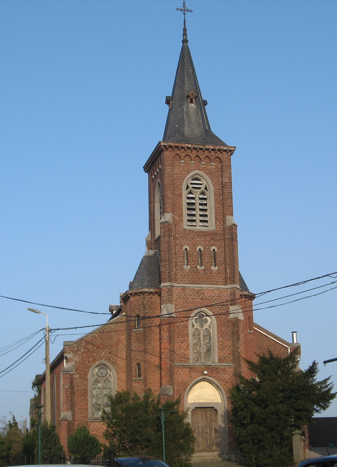 Church of Saint Lambert in Tignée, Evegnée-Tignée, Soumagne, Liège, Belgium